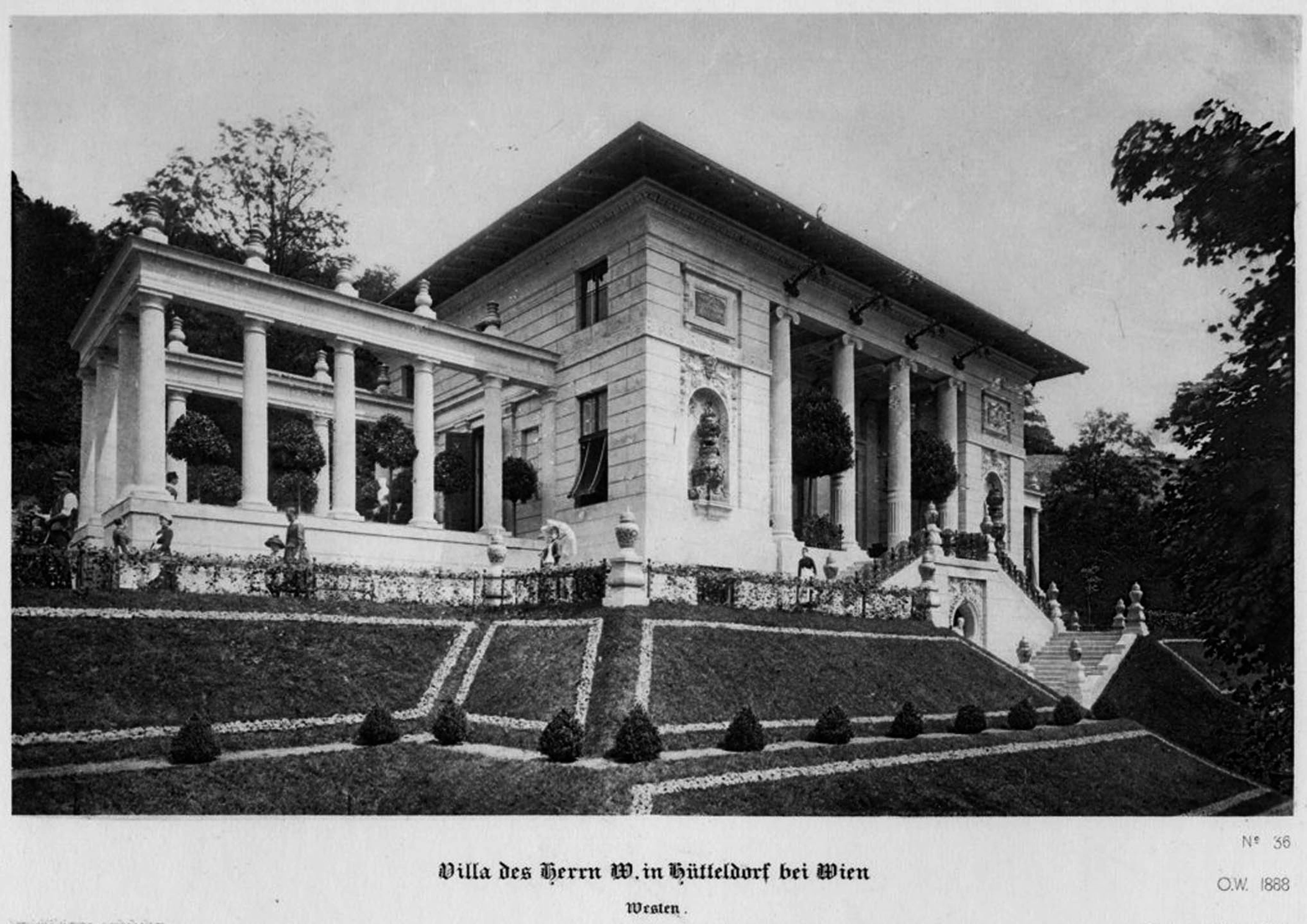 Villa Wagner I.